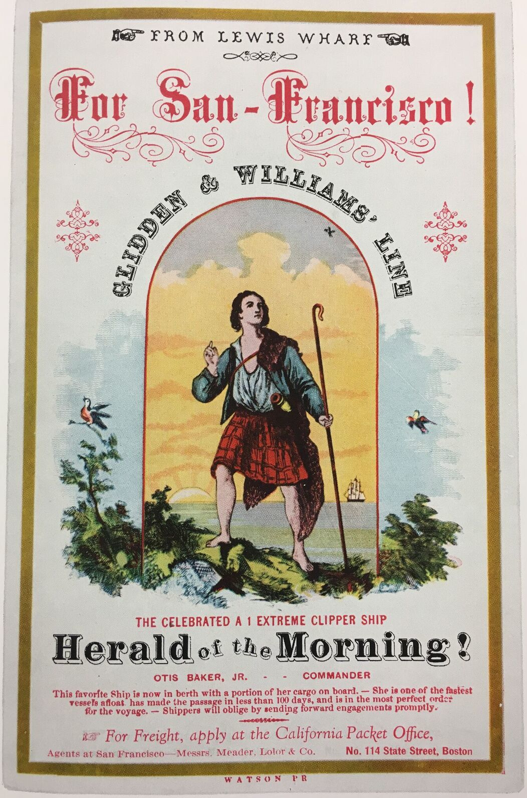 HERALD OF THE MORNING Clipper ship sailing card. Built in 1852. Builder: Hayden & Cudworth of Medford. Ovner: Thacher Magoun